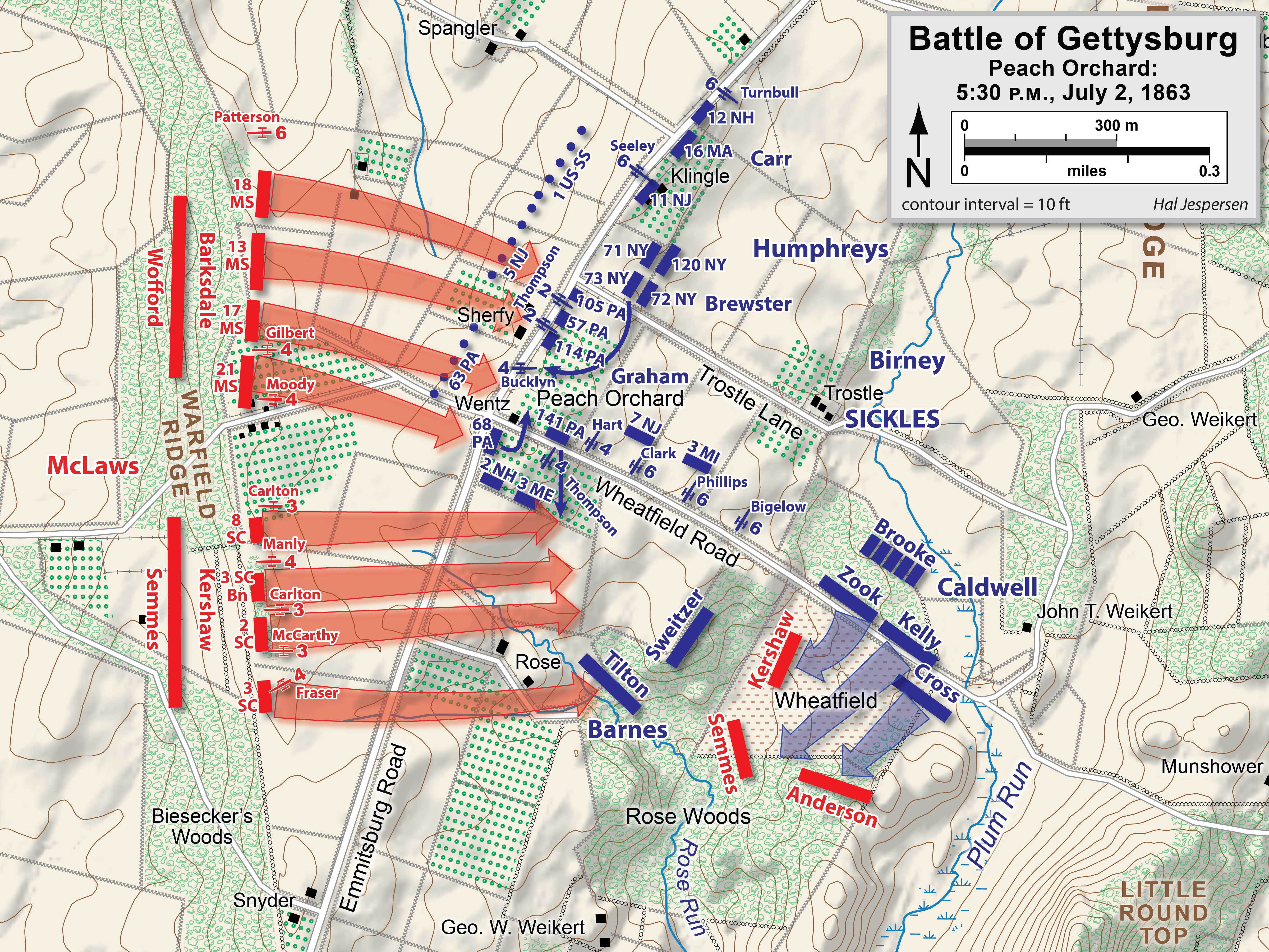 Map of Peach Orchard actions in the Battle of Gettysburg, Second Day, of the American Civil War. Drawn in Adobe Illustrator CS5 by Hal Jespersen. Graphic source file is available at Attribution: Map by Hal Jespersen